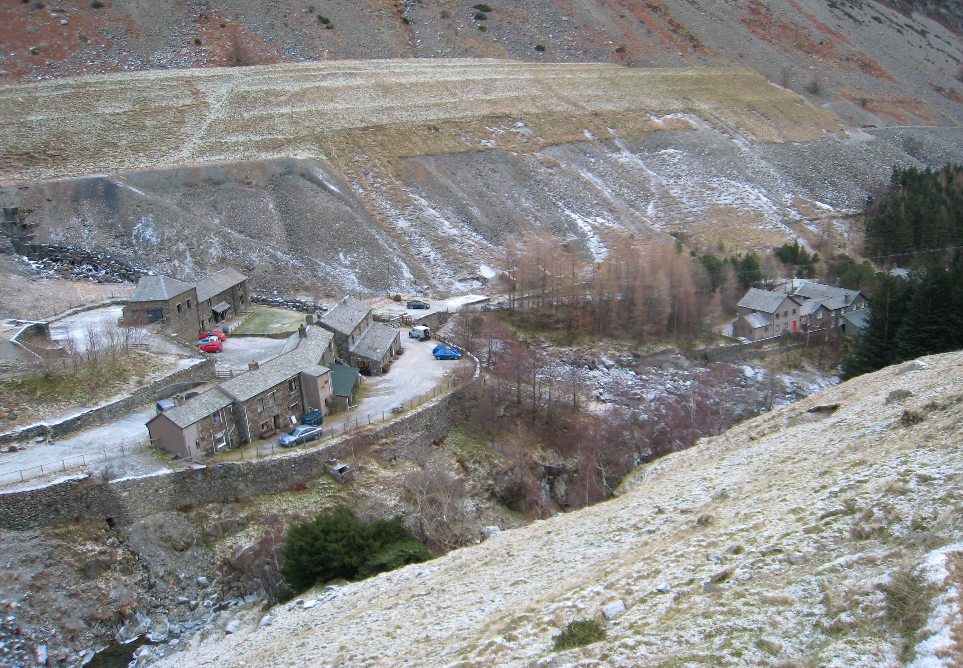 Greenside, from the south. This was the bottom of the mine complex. The building on the right is now Helvellyn youth hostel.